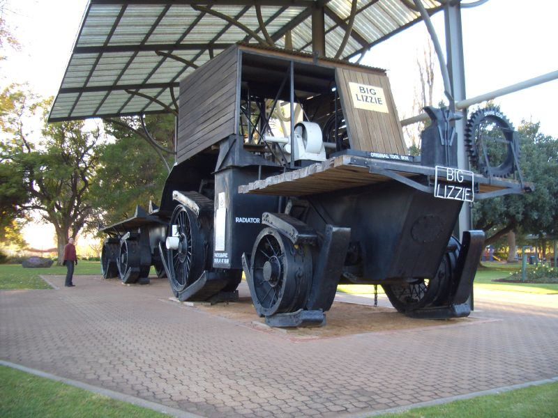 Giant 60 hp oil engined tractor/truck Big Lizzie at Red Cliffs, Victoria, Australia.